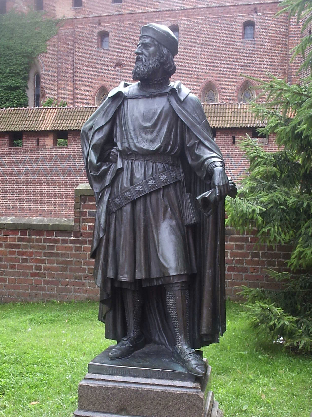 Statue of Winrich von Kniprode, Grand Master of the Teutonic Order, Castle of Malbork, Poland